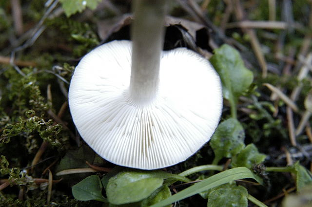 Melanoleuca strictipes from Commanster, Belgium. If you think this is a different taxon, please contact James Lindsey.